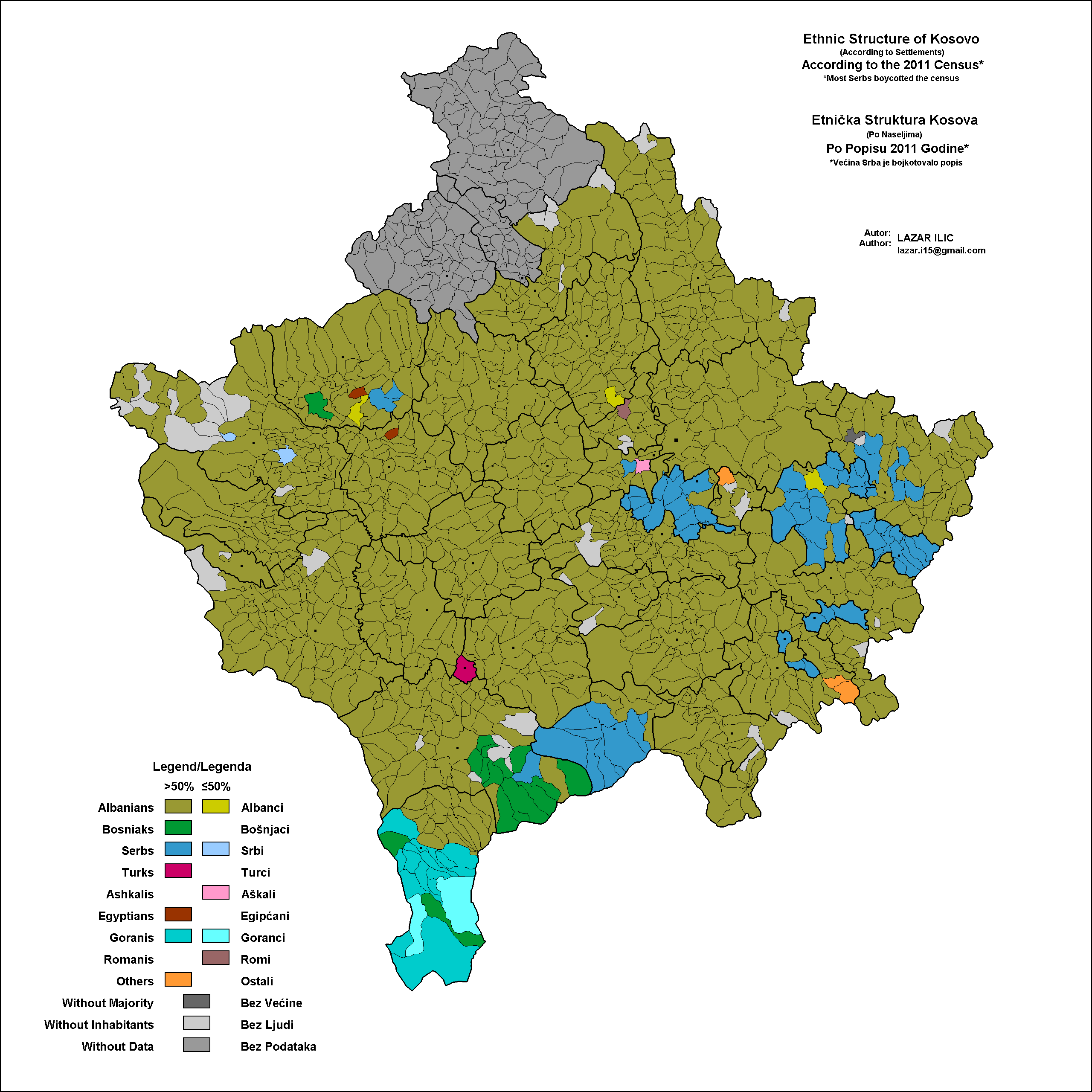 Ethnic map of Kosovo according to the 2011 census.